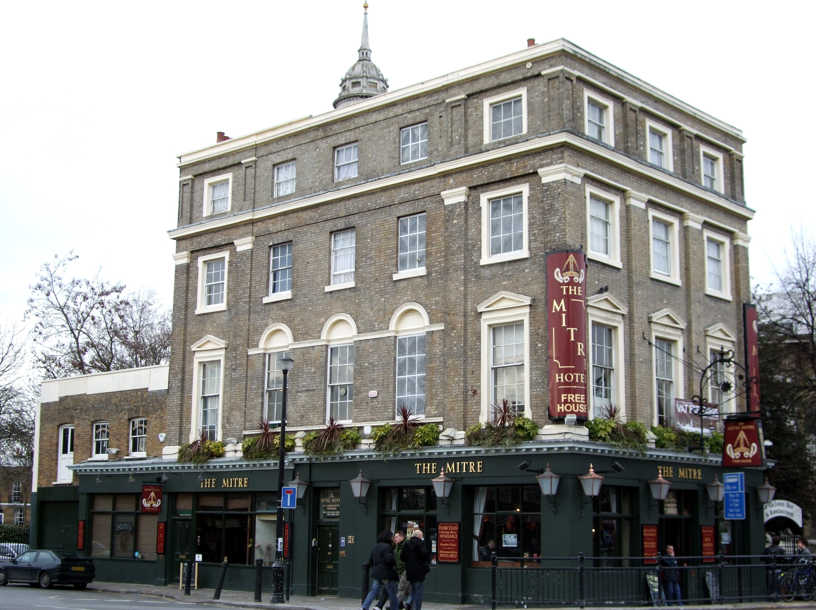 Refurbished place near Greenwich Market. Address: 291 Greenwich High Road (formerly at Church Street). Owner: Convivial London Pubs (website). Links: Fancyapint Beer in the Evening Dead Pubs (history)